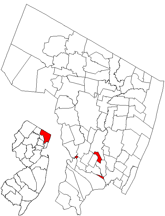 Map showing South Hackensack within Bergen County, NJ.